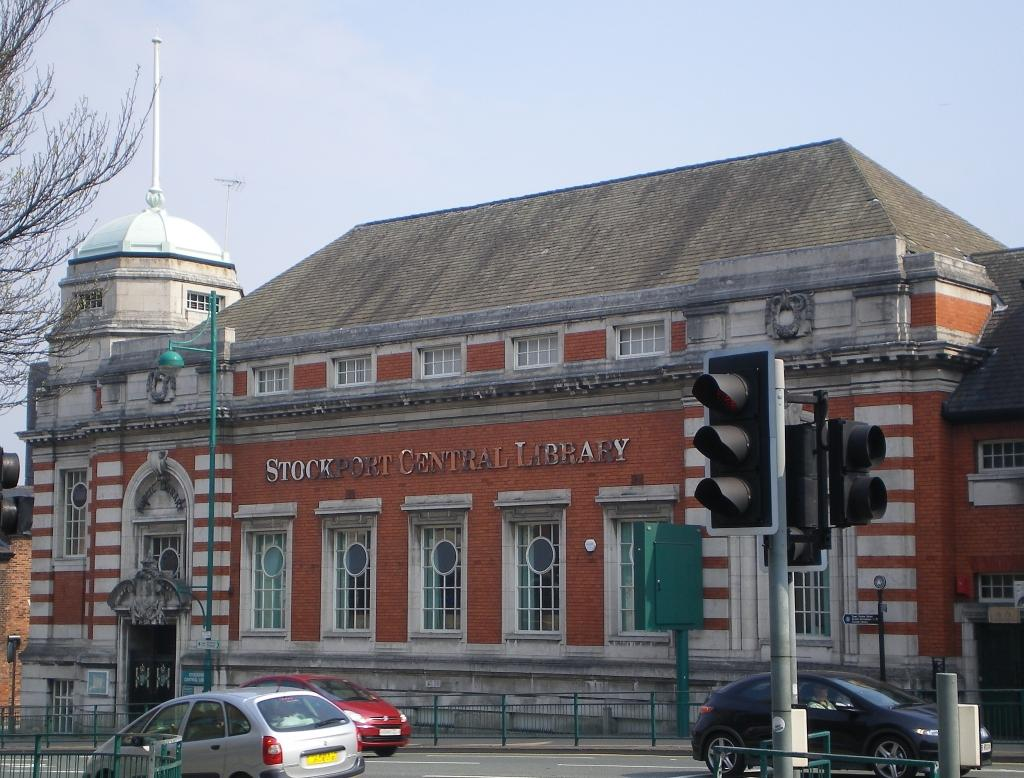 Stockport Central Library, Stockport, Greater Manchester, the United Kingdom